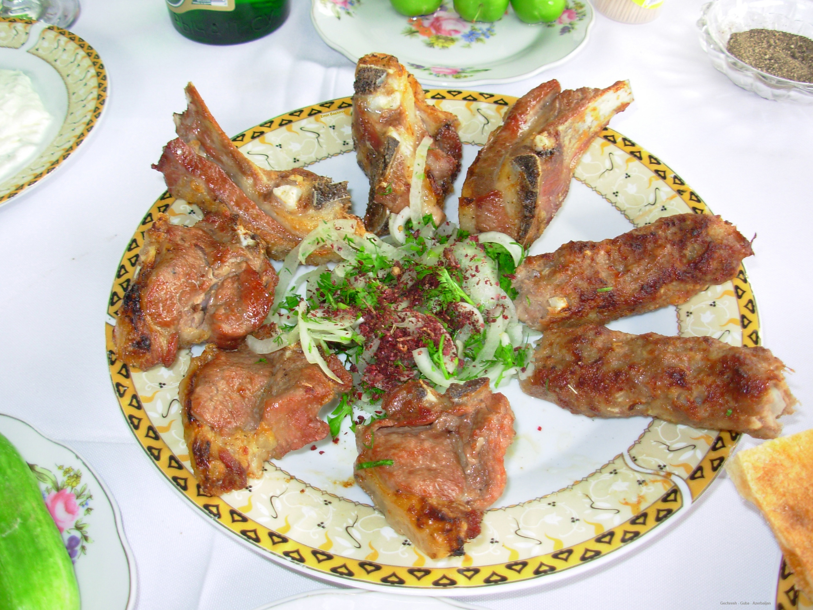 Kebab, Azerbaijani cuisine, (Gechresh, Guba)